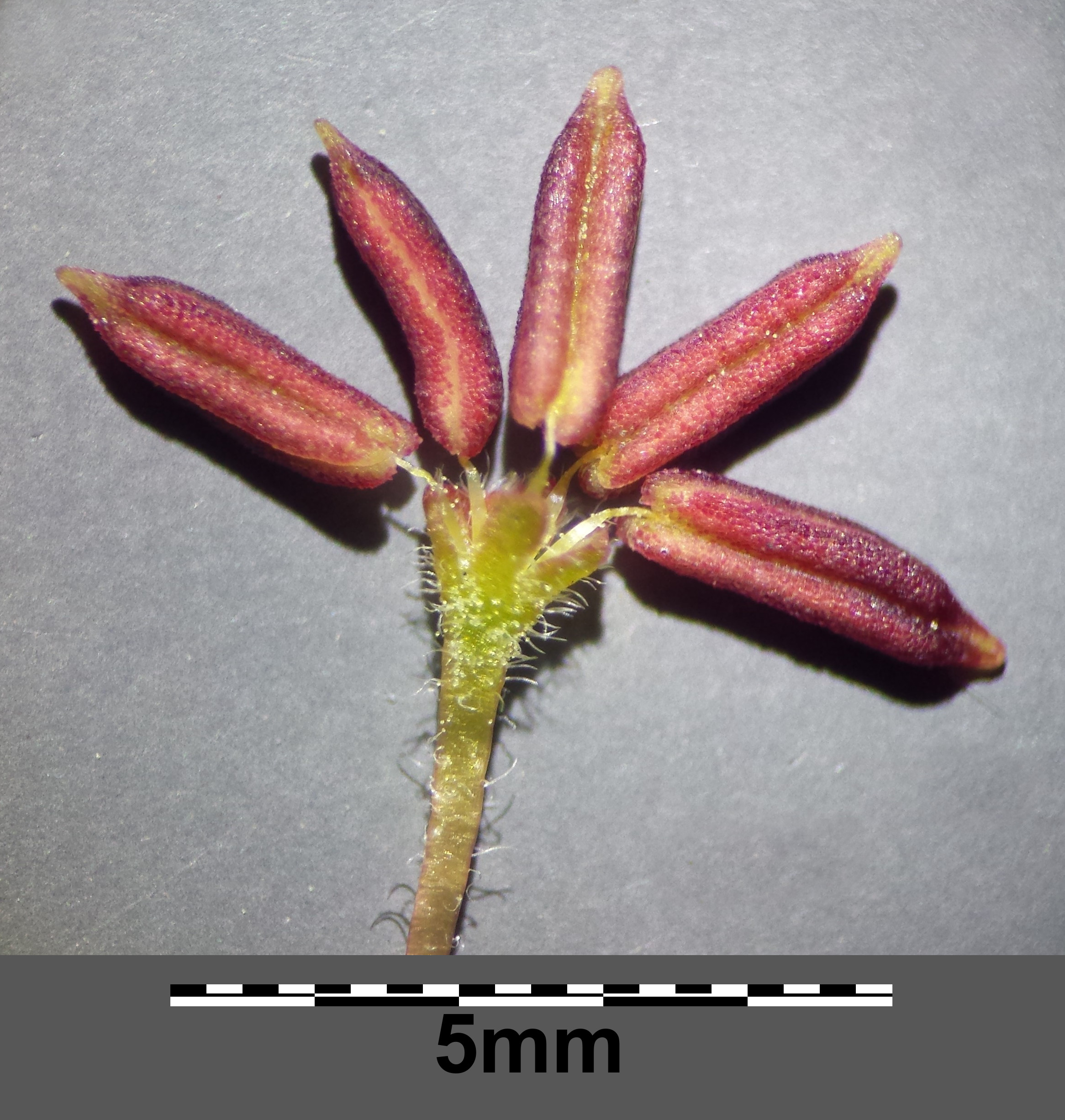 Flower (♂ individual) Taxonym: Acer negundo ss Fischer et al. EfÖLS 2008 ISBN 978-3-85474-187-9 Location: Donauauen near Schönau an der Donau, district Bruck an der Leitha, Lower Austria - ca. 150 m a.s.l. Habitat: dam